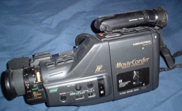 This is a photo of an 8mm camcorder that I purchased in en:1992. The camera is a Memorex camera that I purchased at Radio Shack for $700. The camera hasn't worked for several years and had been in storage. I took this picture in August of 2004. JesseG 02:05, Sep 1, 2004 (UTC)